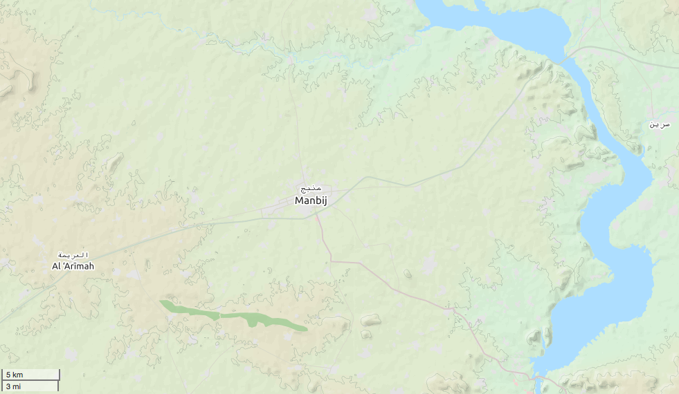 Wider map of Manbij with surroundings, including part of Euphrates valley.